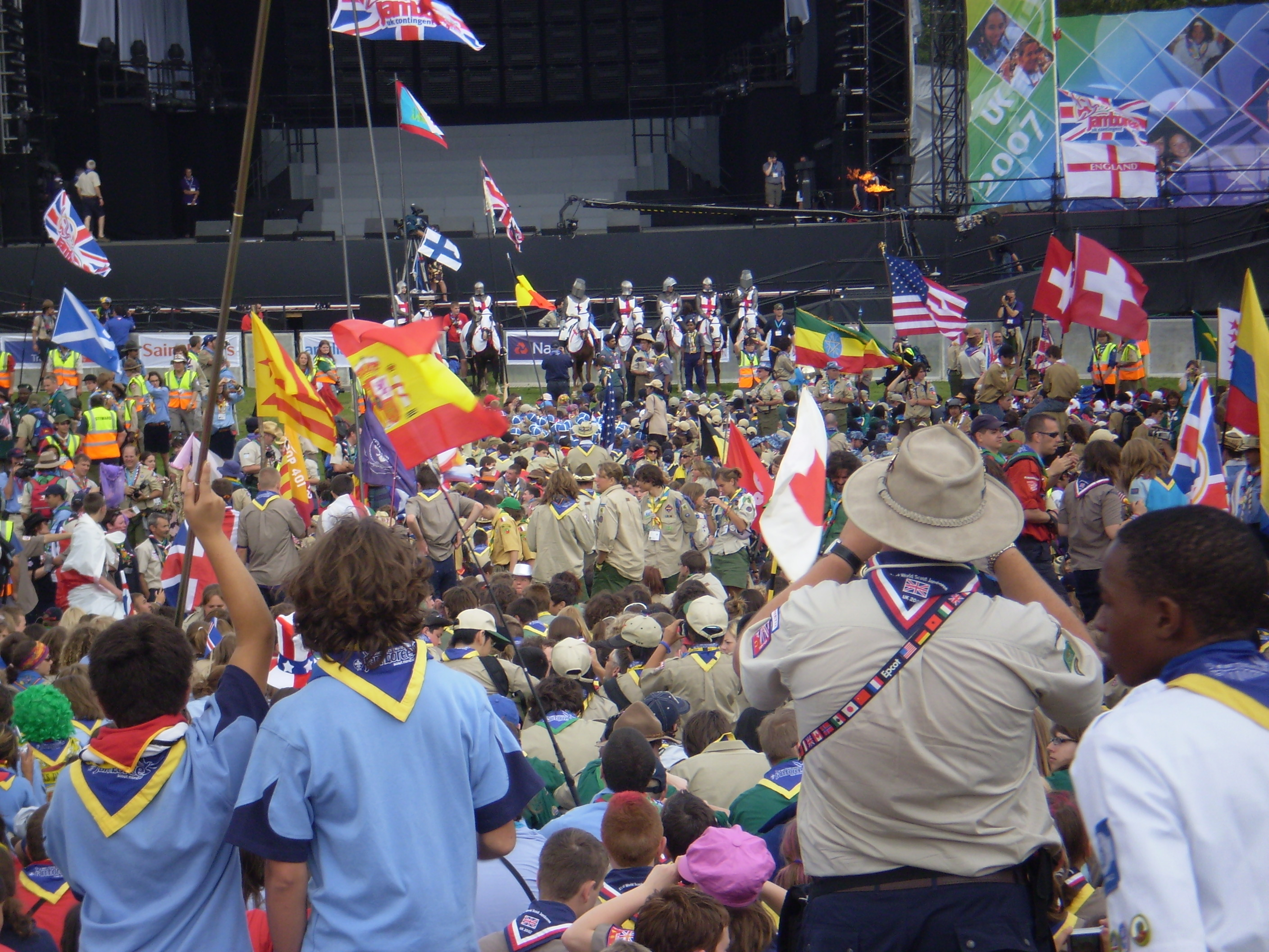 Waiting the opening ceremony of the 21st World Scout Jamboree